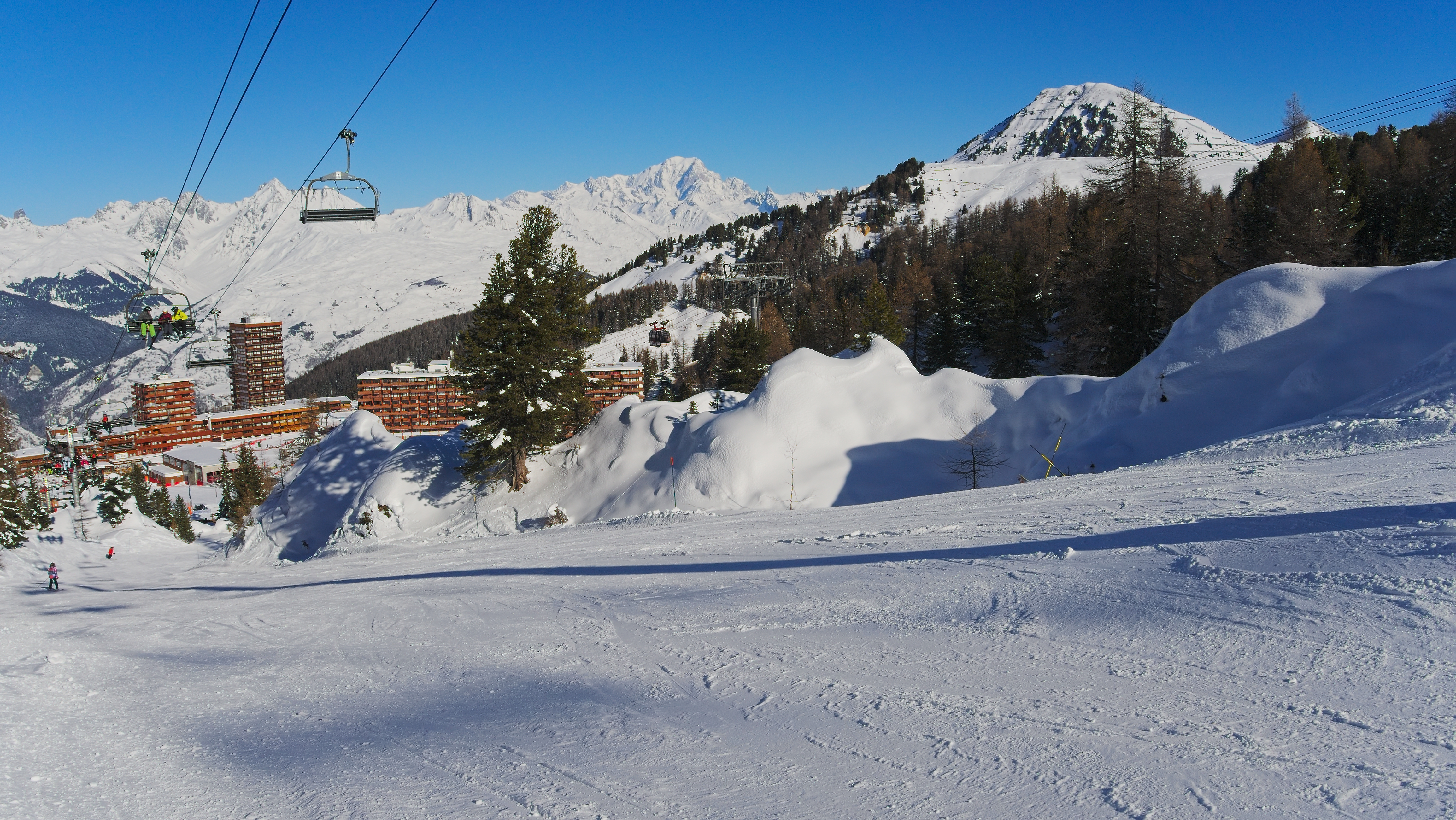 Paradiski, slope downwards. Taken in La Plagne, ski slope under lift Colorado, Savoie, France.